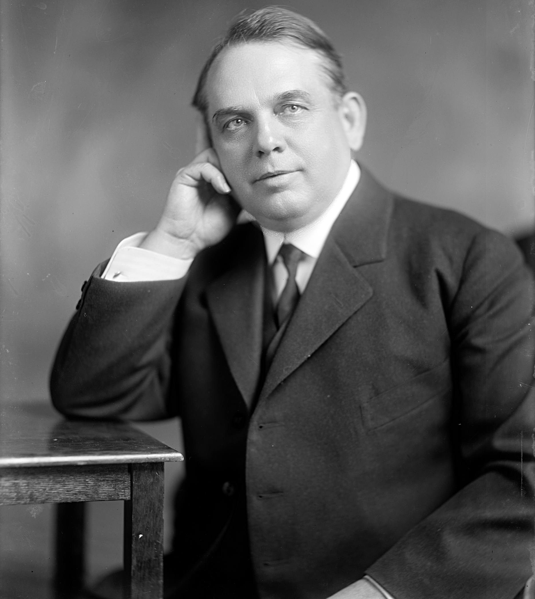 Edward John King, US Representative from Illinois